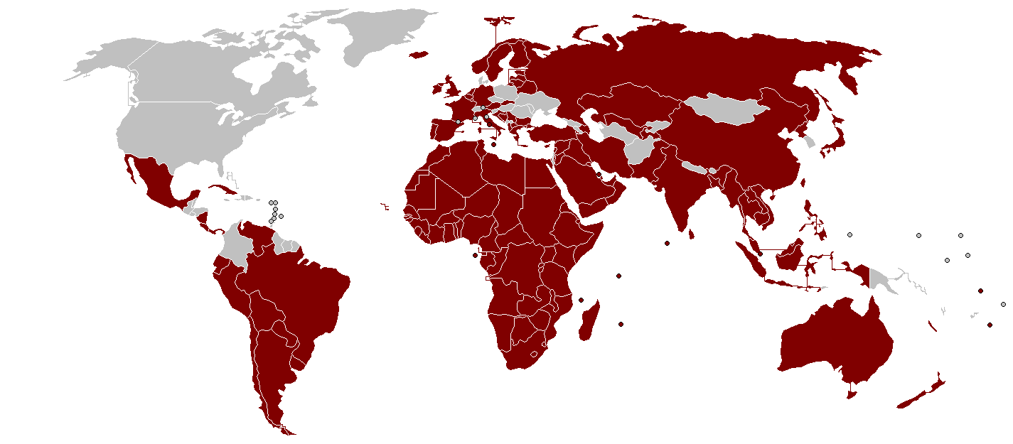 Countries shaded are those that criticized the Israeli raid.